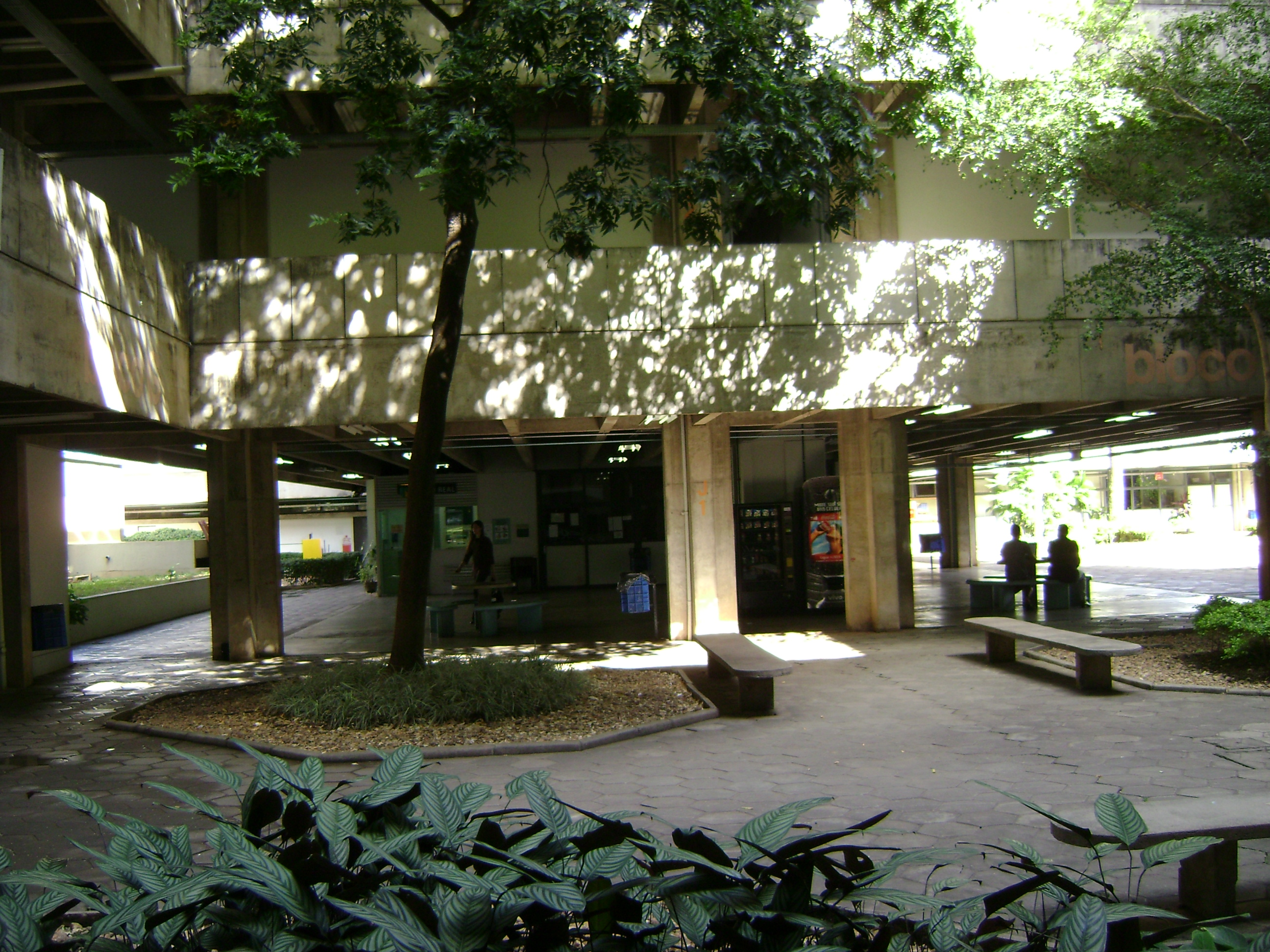 Espaço interno do ICB da UFMG.